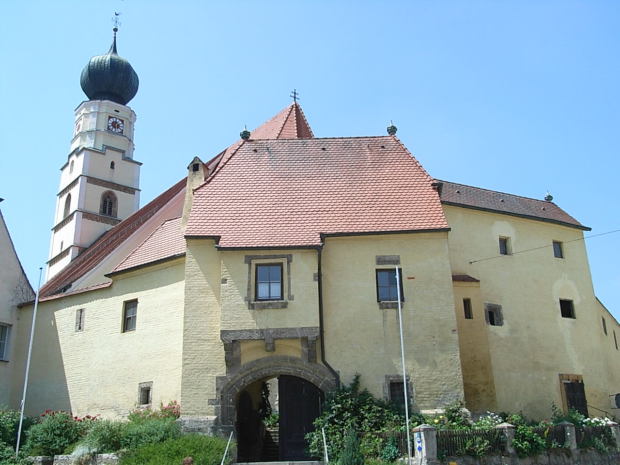 Kößlarn, Holy Trinity Parish Church and fortifications from north-east.